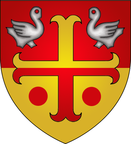 Coat of arms of the municipality of Heinerscheid, Luxembourg (valid until 1 January 2012)